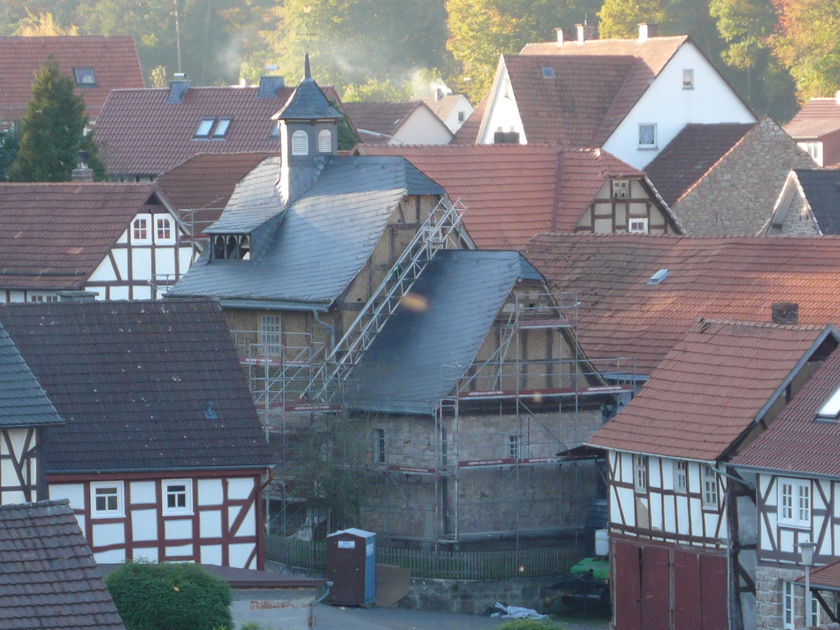 church dorfitter